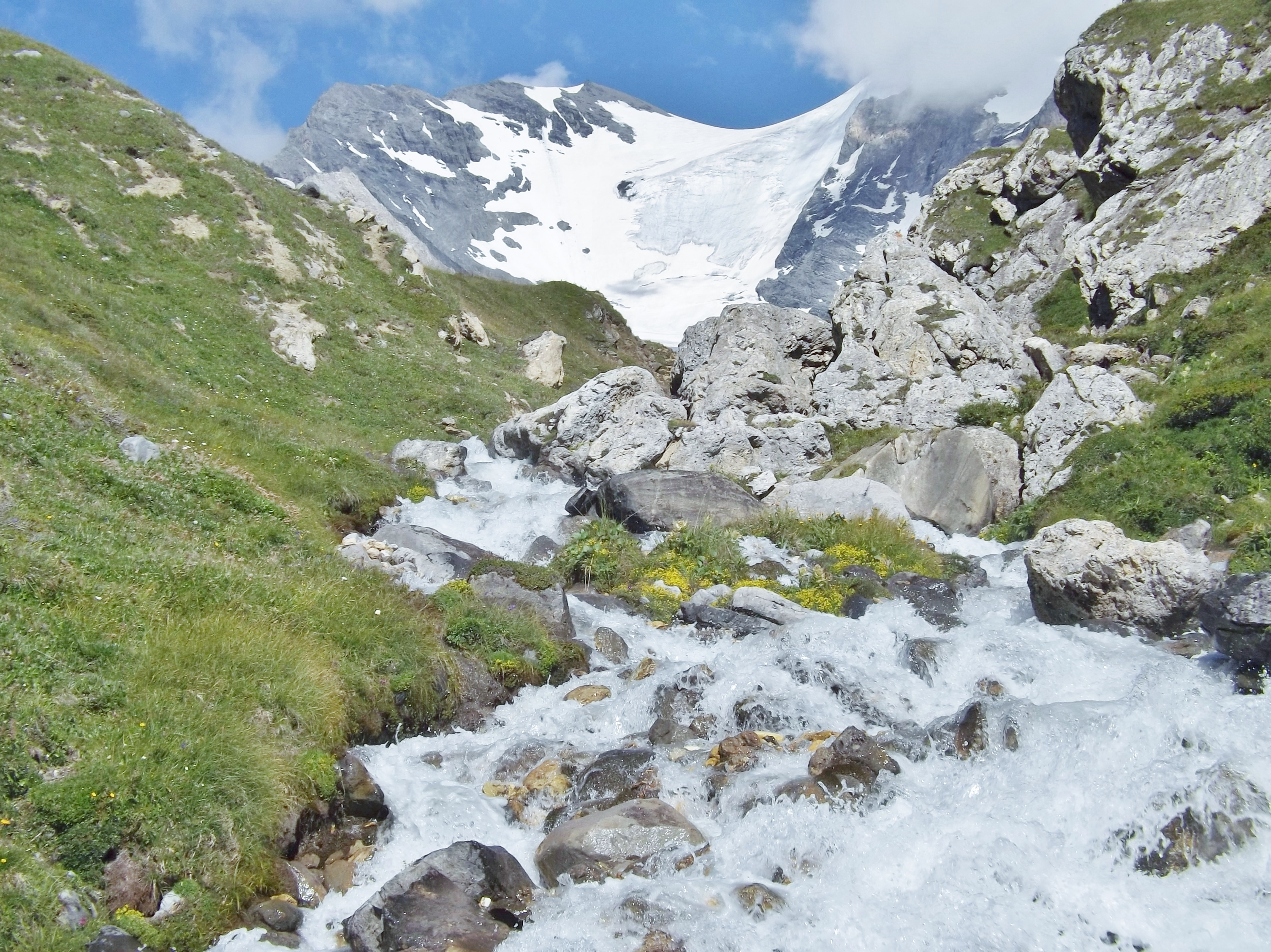 Sight of the Glière stream and the Grande Casse mount and glacier at the background, on the heights of Pralognan-la-Vanoise, in Savoie, France.